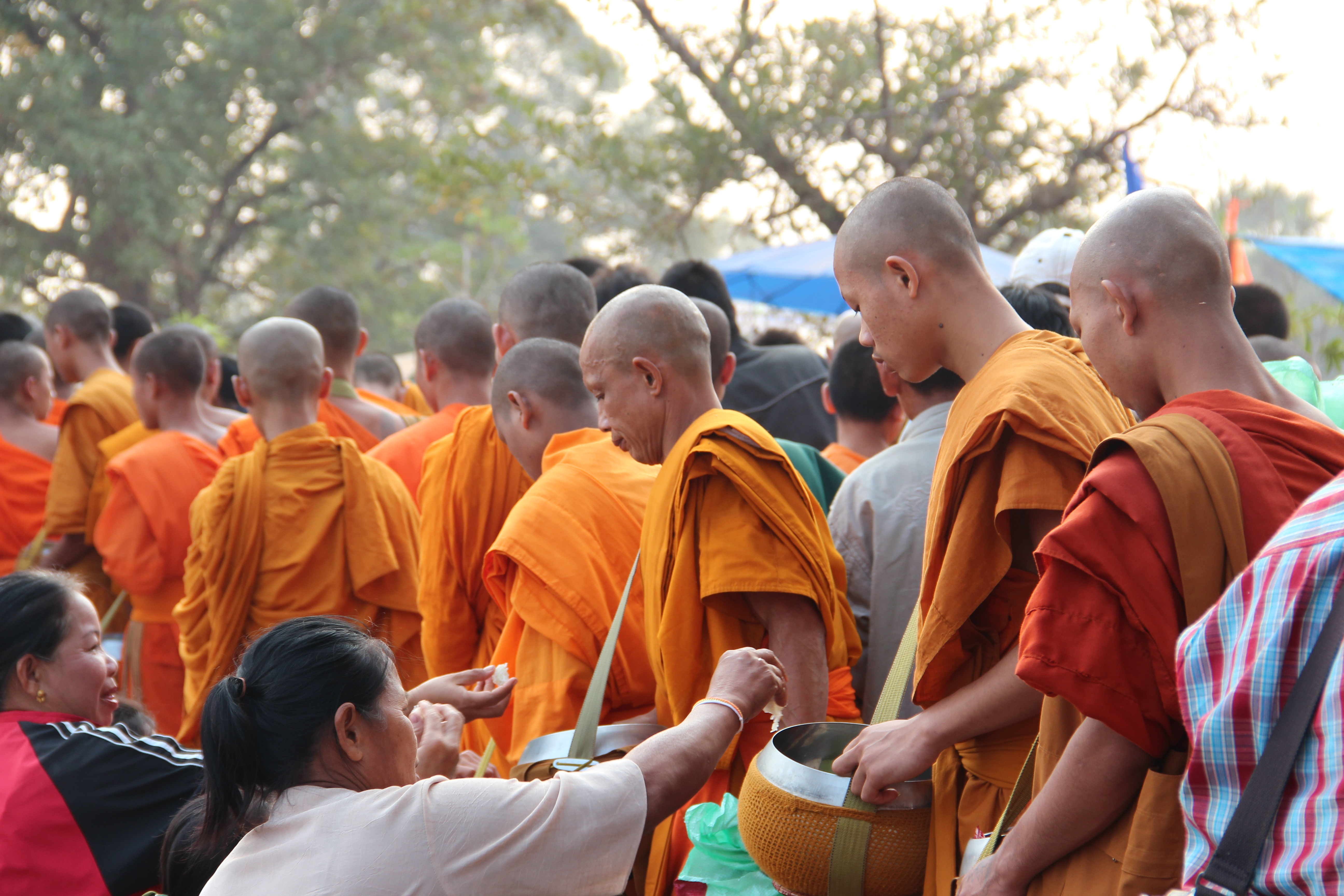 Monks collecting alms during Bun Vat Phou 2012.